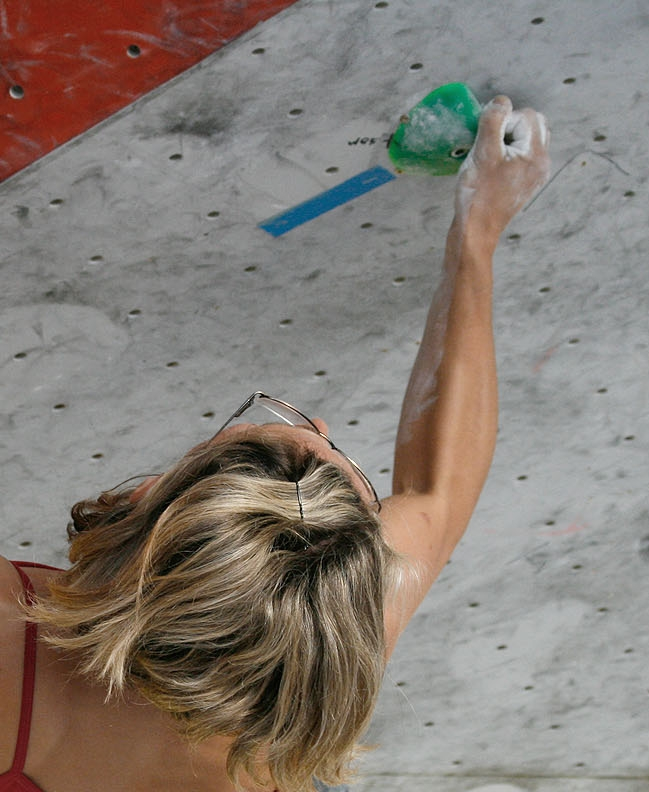 Radka Petkova during qualifications at the IFSC Boulder Worldcup Vienna 2010.